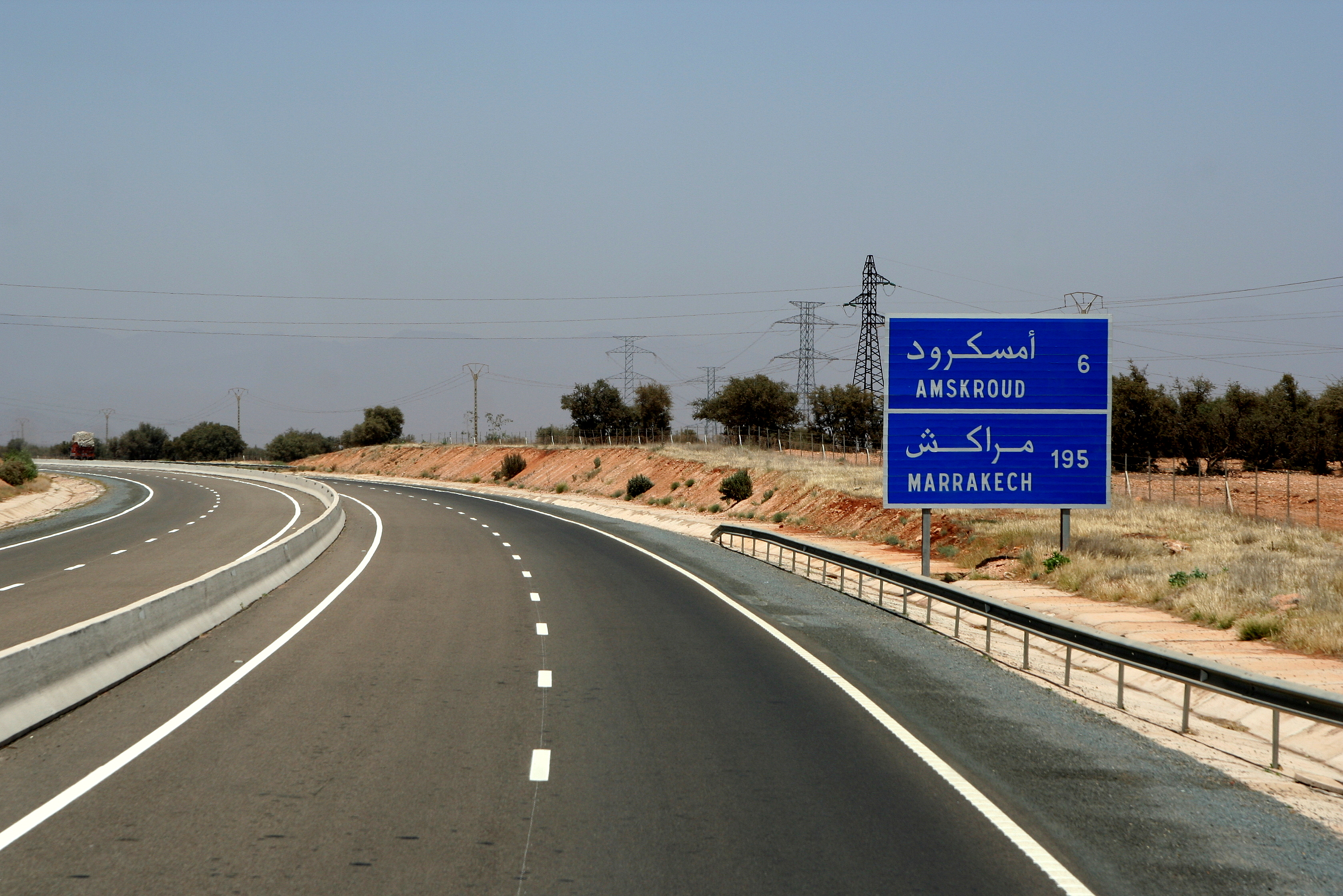 A7 motorway in Morocco